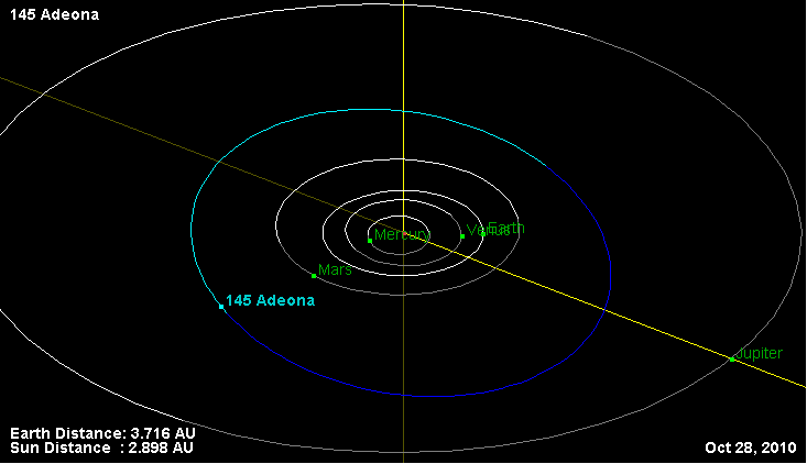 145 Adeona orbit